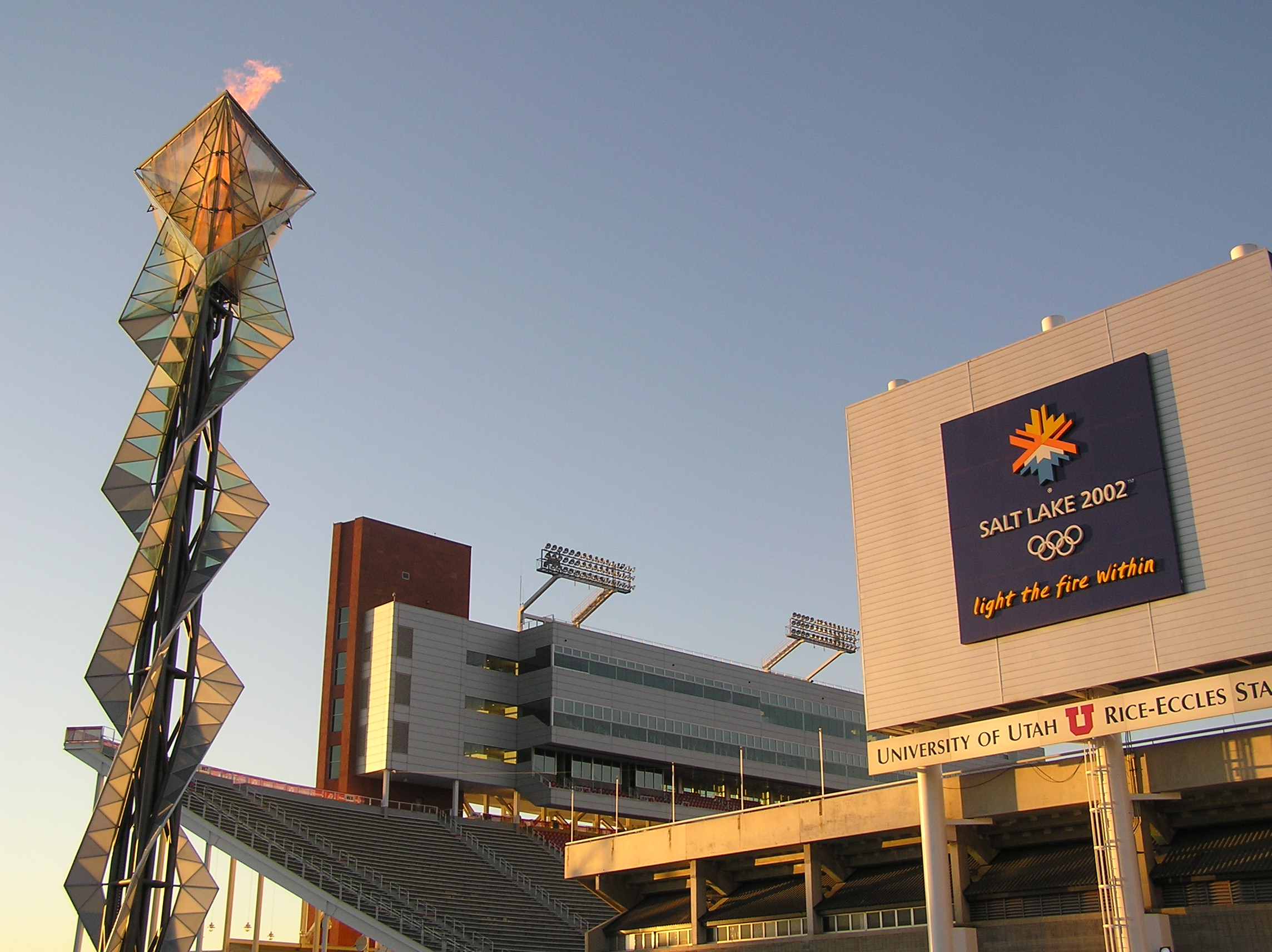 Salt Lake 2002 Olympic Cauldron Park with Cauldron lit for the opening weekend of the 2006 Winter Olympics. Salt Lake City, Utah, USA